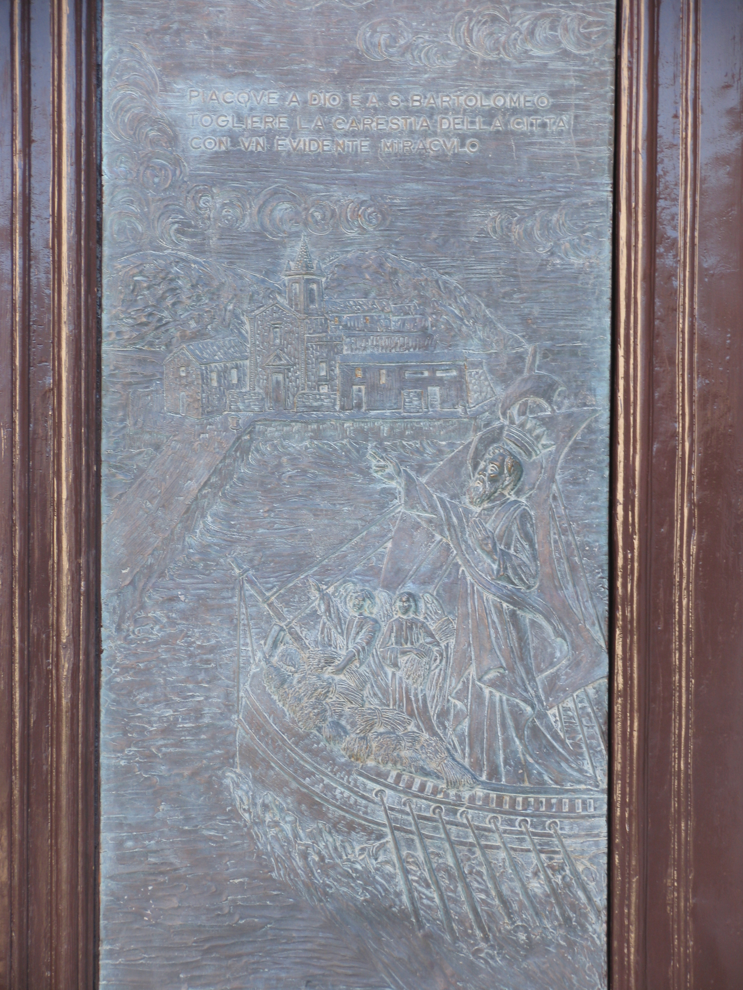 San Bartolomew legendary landing on Lipari, Eolian islands, Sicily, Italy